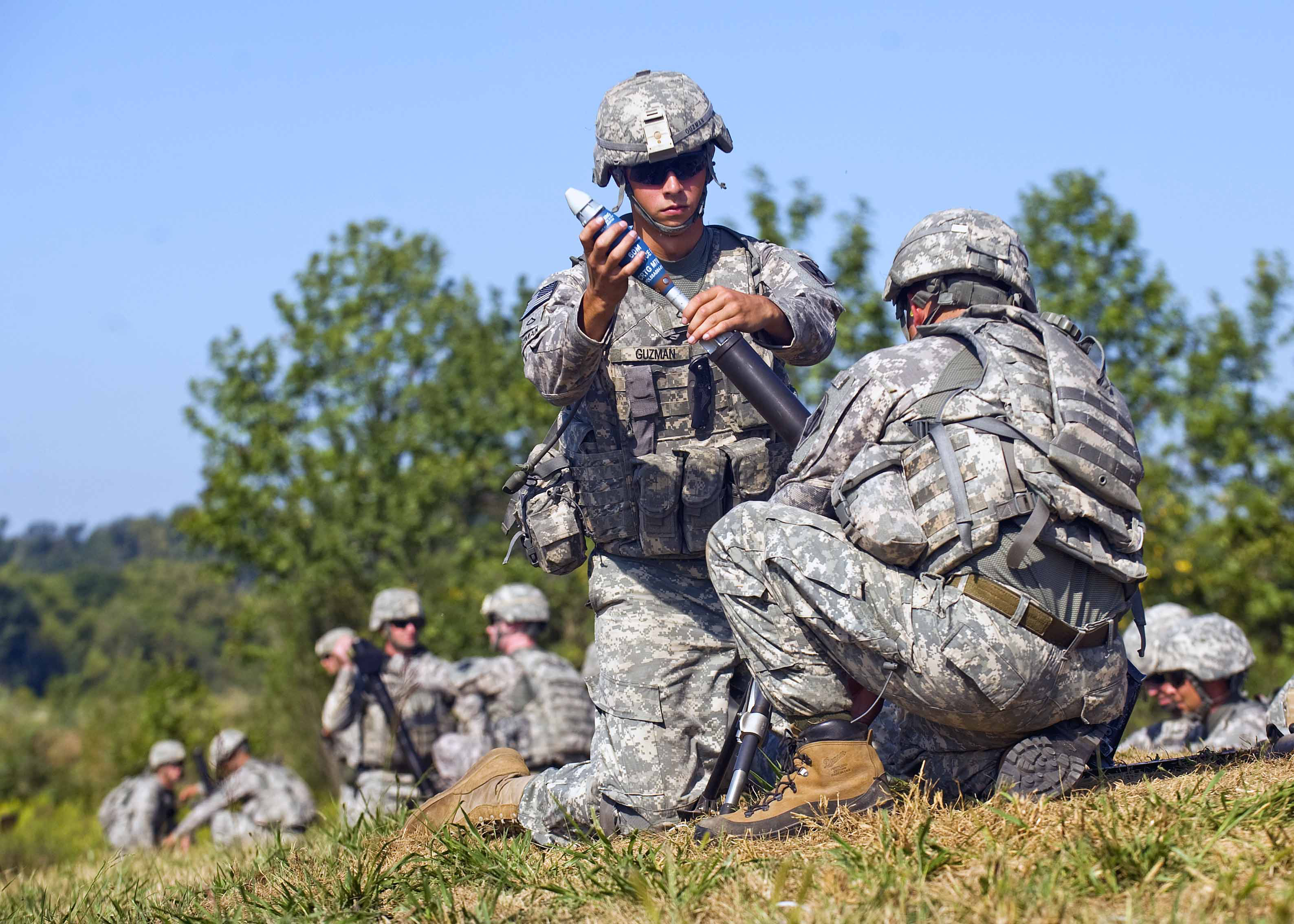 U.S. Army Pfc. Joseph Guzman, 1st Battalion, 181st Infantry Regiment, prepares to drop a 60mm mortar to launch at fixed targets at Camp Atterbury Joint Maneuver Training Center, Indiana, on August 31, 2010. The Massachusetts National Guard unit is training to provide security to roughly a dozen provincial reconstruction teams across Afghanistan.